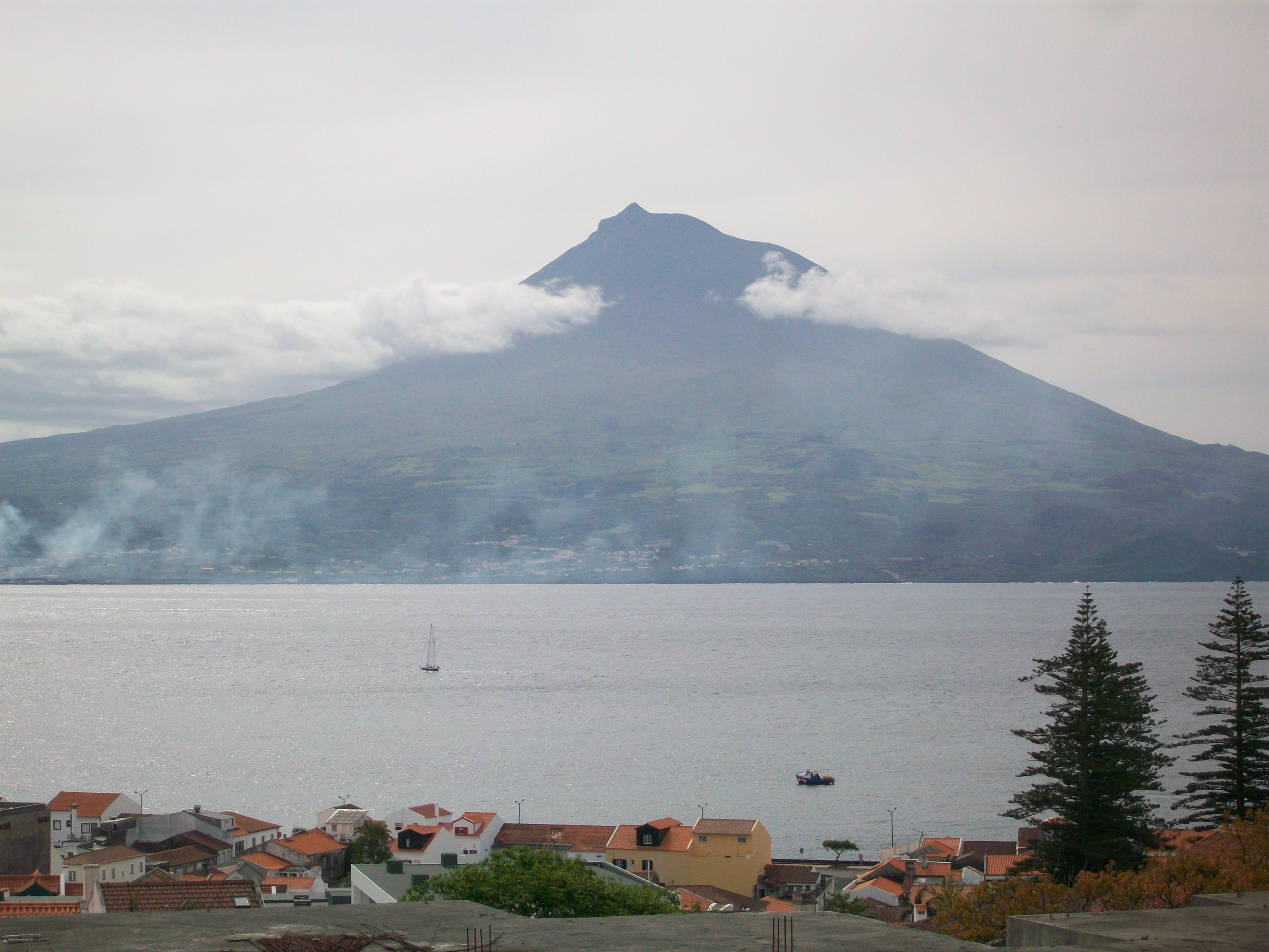 View of Mount Pico from Horta island. 29 May 2009.